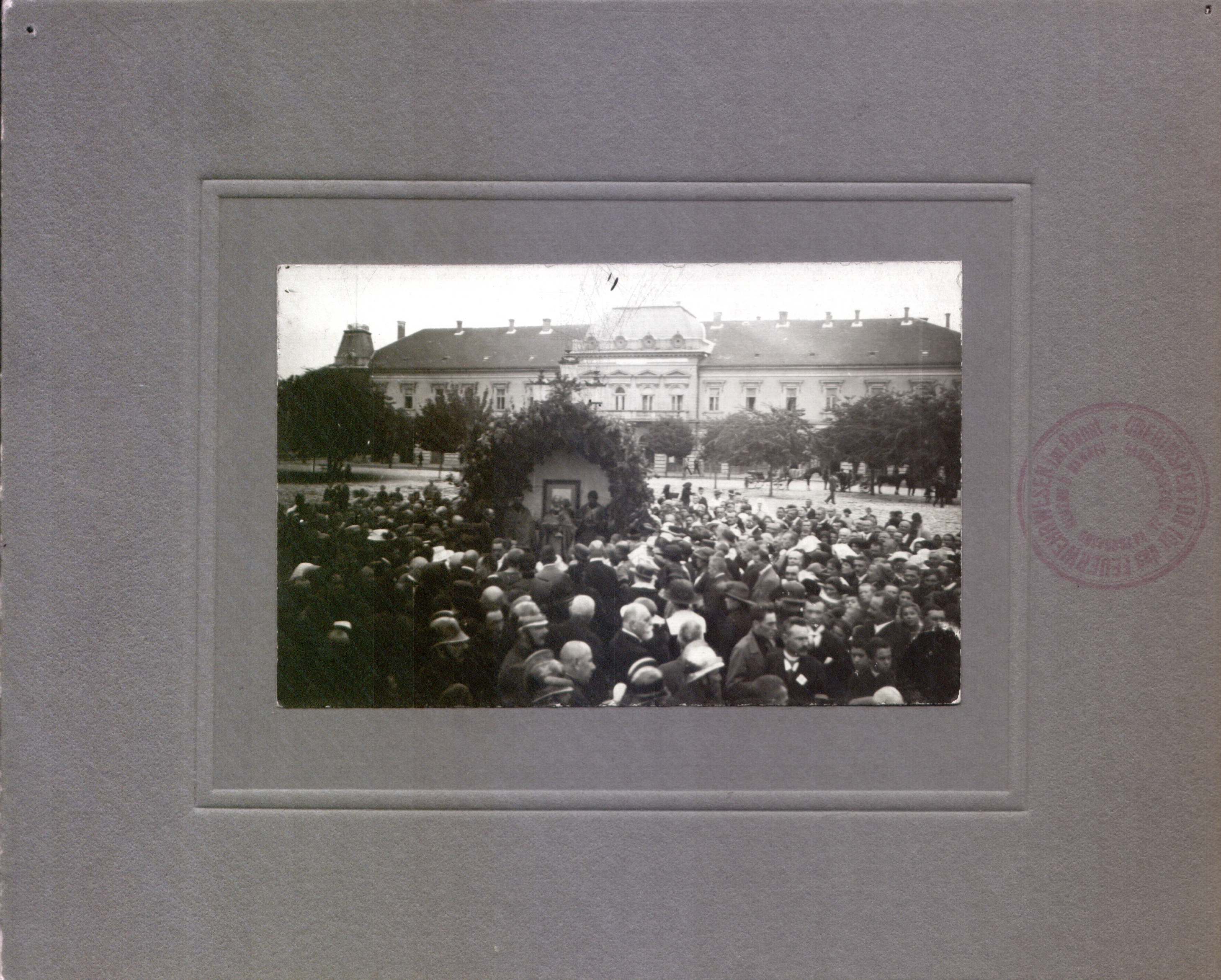 Celebration of the 50th anniversary of the volunteer firefighting company, in front of the building of the Magistrate in Pančevo.